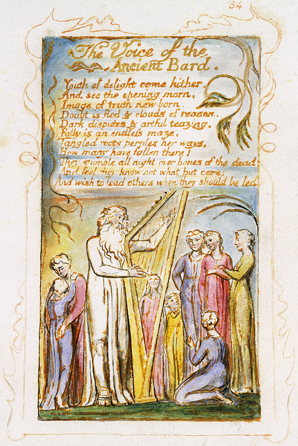 Songs of Innocence and of Experience, copy Y, 1825, object 54, The Voice of the Ancient Bard (Metropolitan Museum of Art)